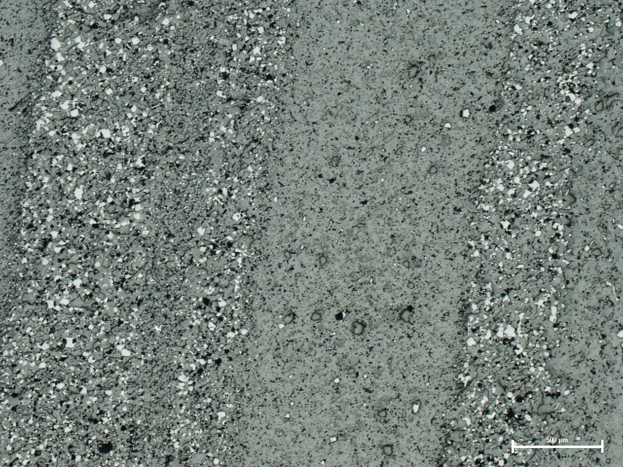 Rapitan-type bedded iron ore from the South Australian Neoproterozoic in a polished thin section und reflected light: Magnetite and minor hematite are light grey, the dark grey matrix is composed of sericite and quartz